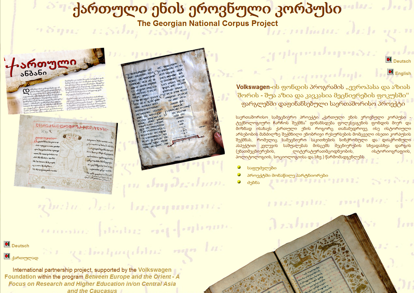 The Georgian National Corpus project